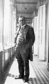 Krikor Zohrab on the balcony of his Constantinople home. Photo courtesy of the Charents Museum in Yerevan.